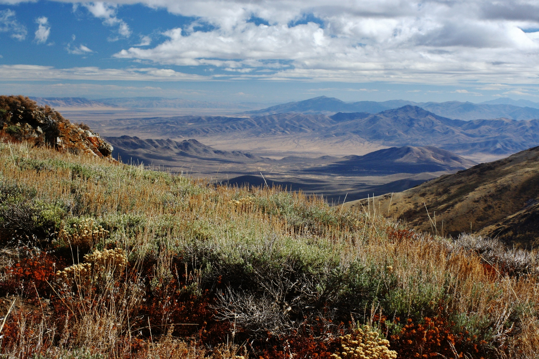 Image: Looking north from the crest of the Sonoma Range Location: Sonoma Range BLM District: Winnemucca District Photographer: John Boehmke